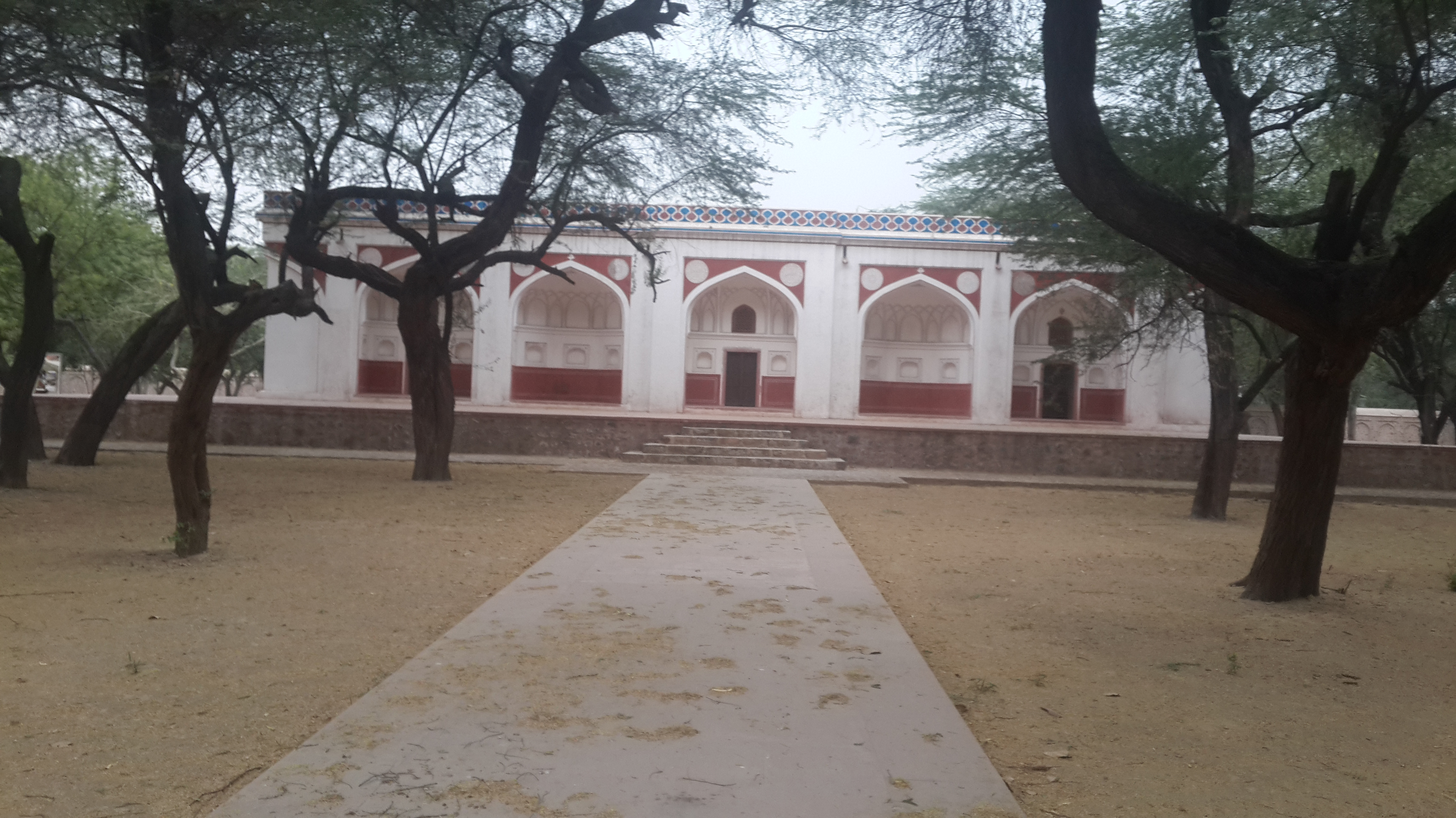 Battashewala tomb is one of the three tombs in the complex renovated during 2013-15